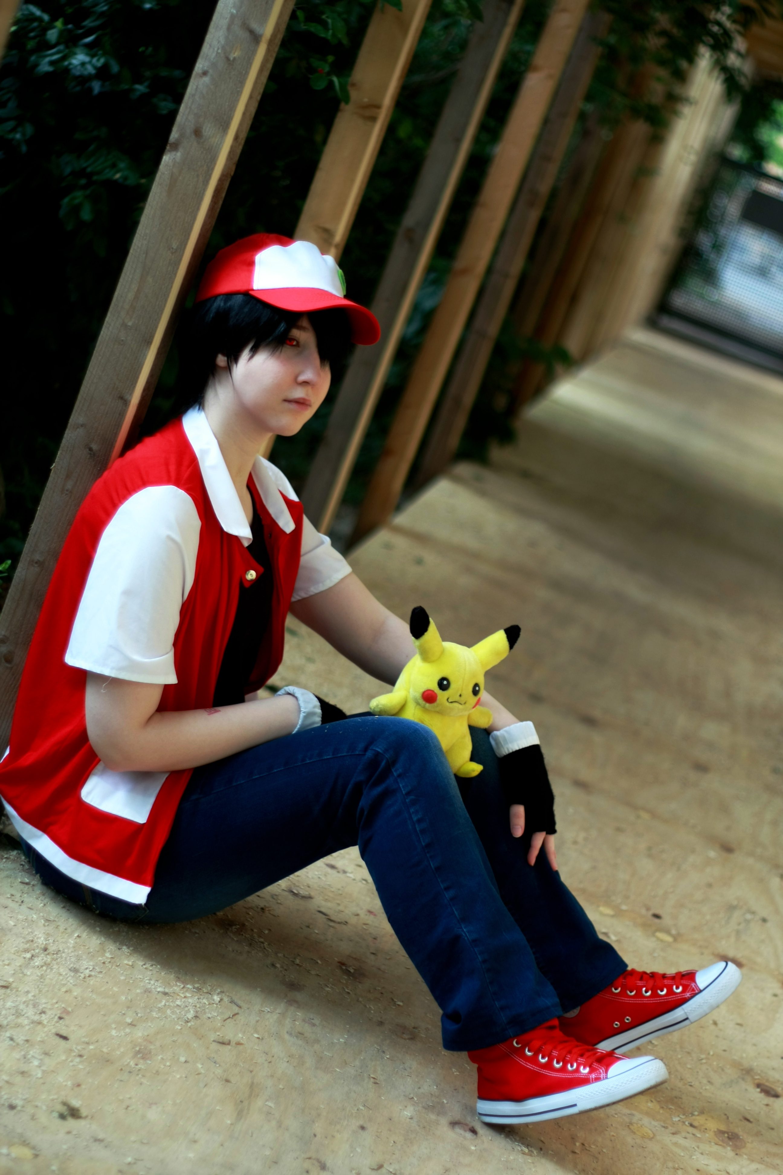 Pokémon Trainer Rot